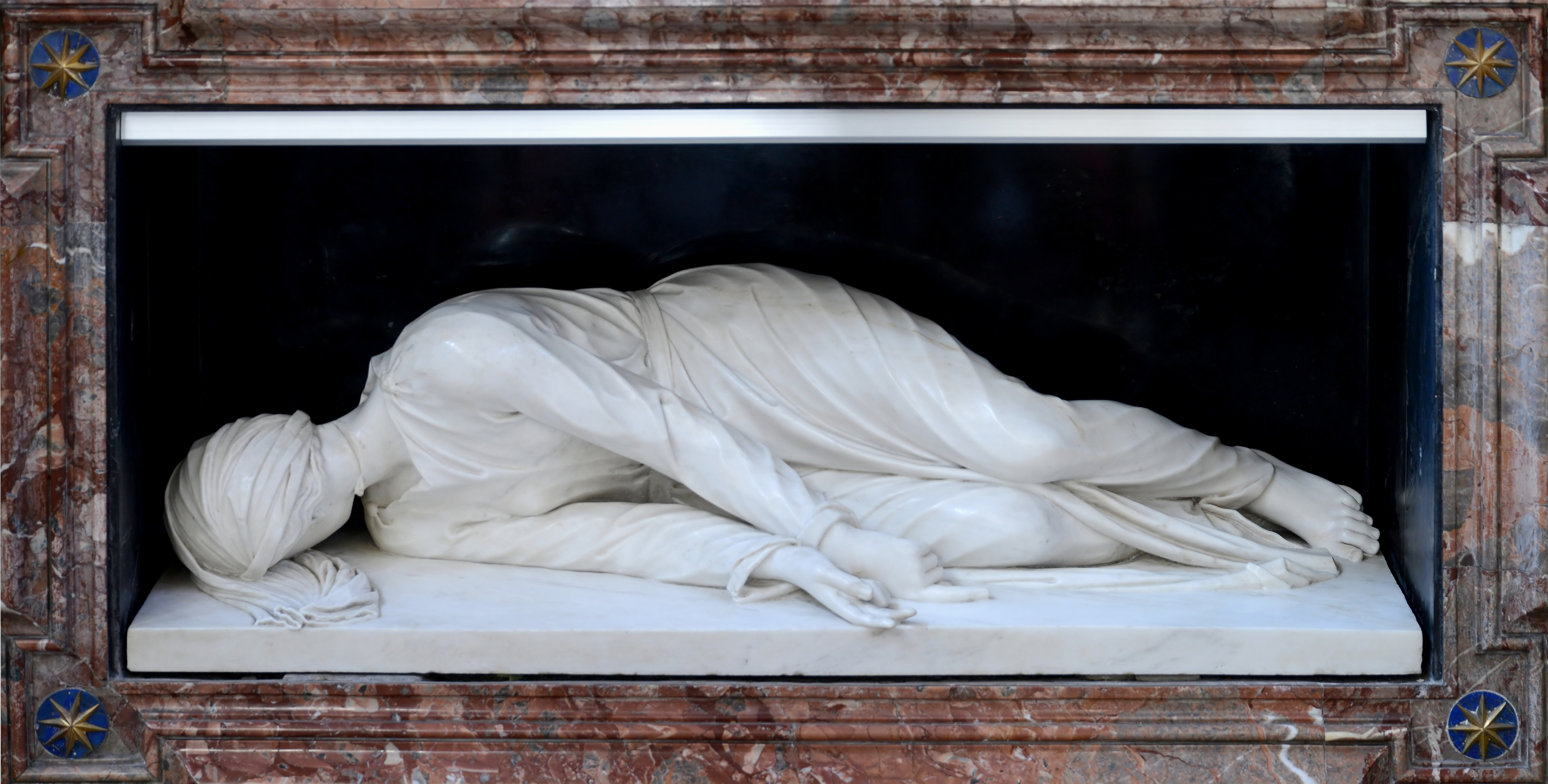 The martyrdom of Saint Cecilia, by Stefano Maderno. Church of Santa Cecilia in Trastevere, Rome